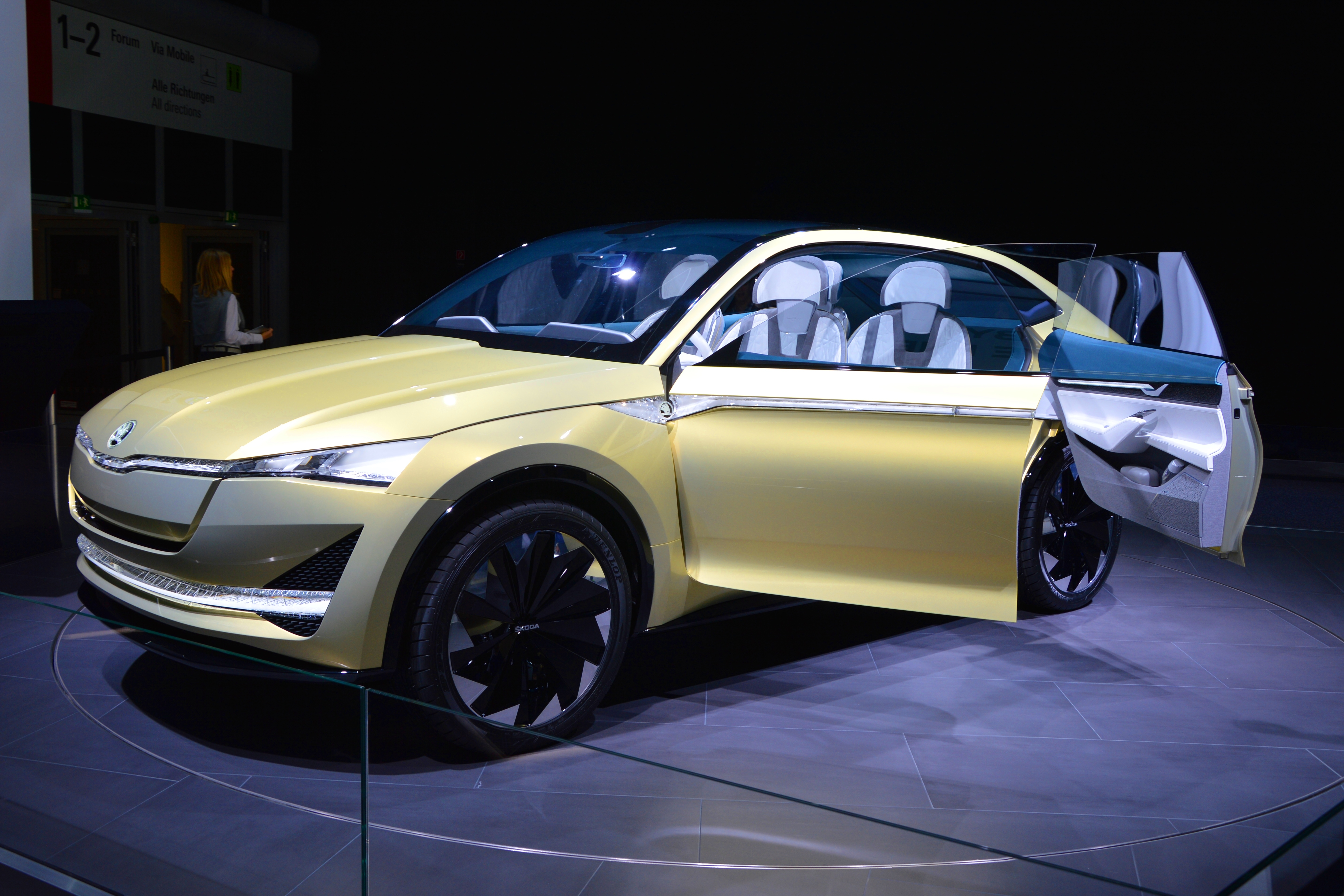 Škoda Vision E concept car. All-electric showcar with lithium ion battery pack. Photo taken at IAA 2017.